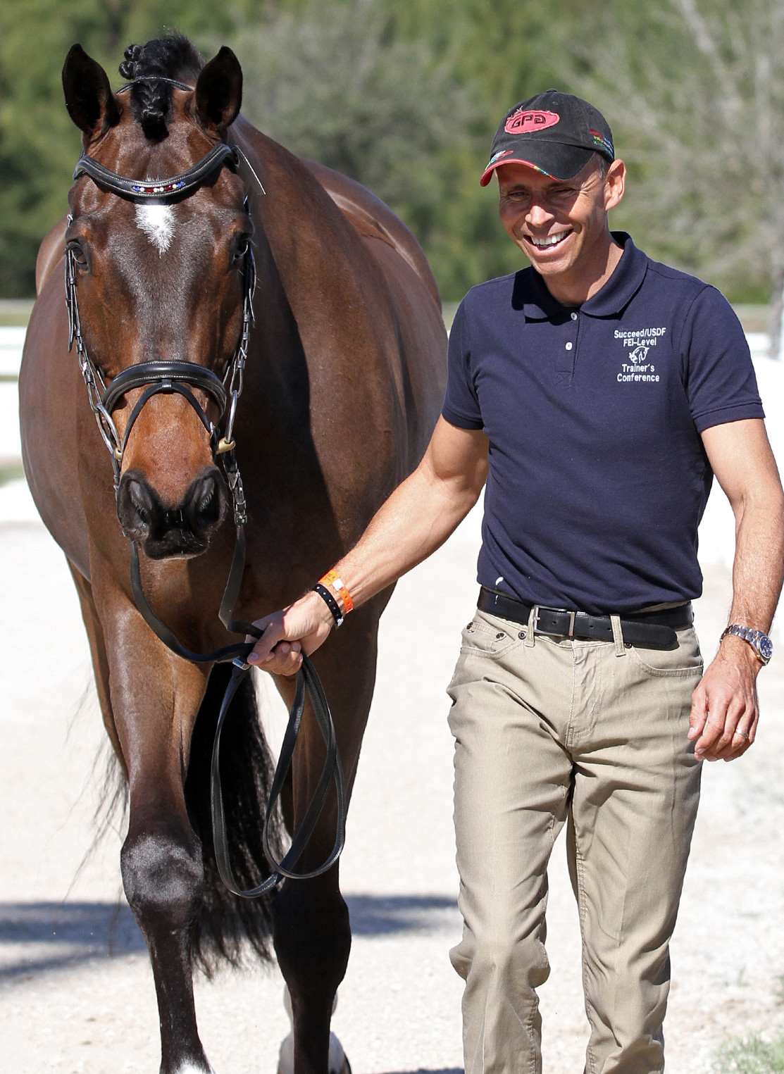 Steffen Peters with his horse Legolas